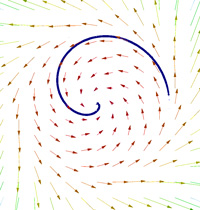 Illustration of Poincaré–Bendixson theorem (1)